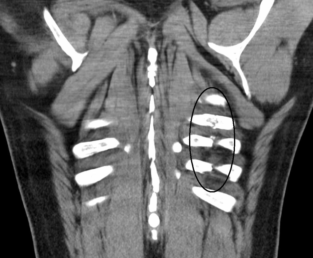 Rib fracture as seen on CT